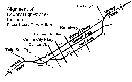 Compiled and drawn by Philip Erdelsky and released into the public domain.